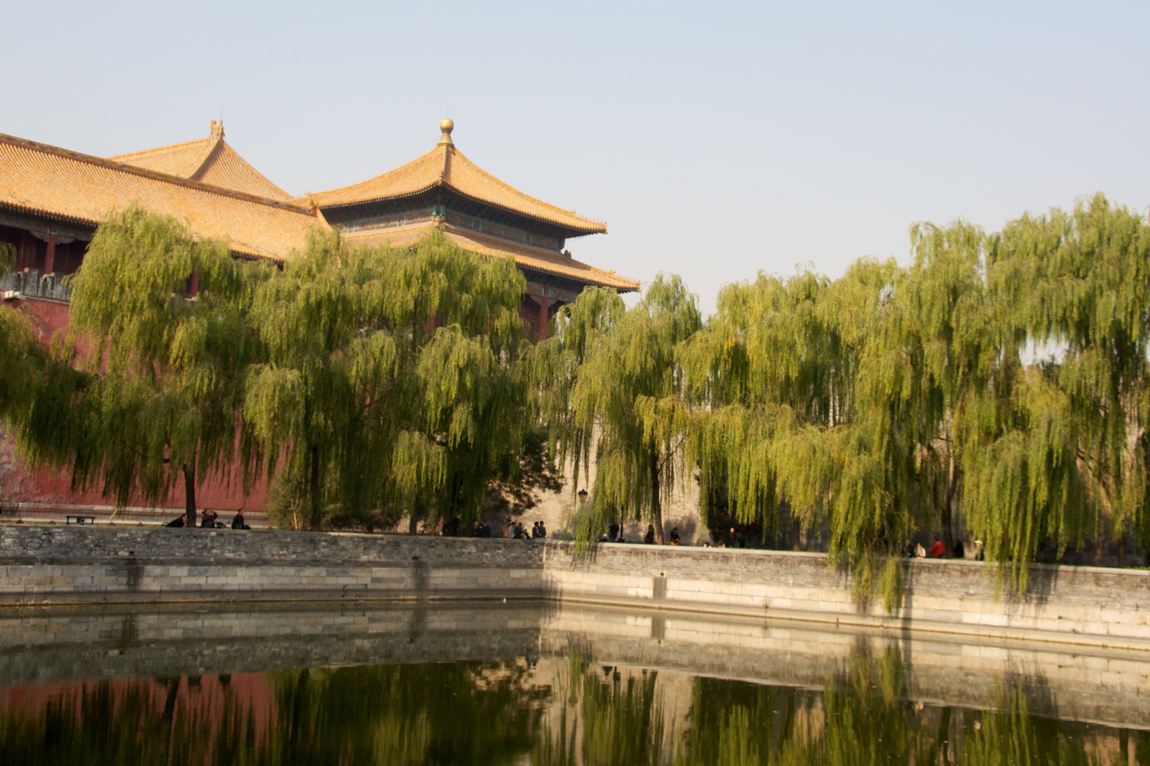 The Forbidden City in Beijing-(view NW) Meridian gate from palace moat "Zhong Shan Gong Yuan-Park. Beijing Workers Cultural Park